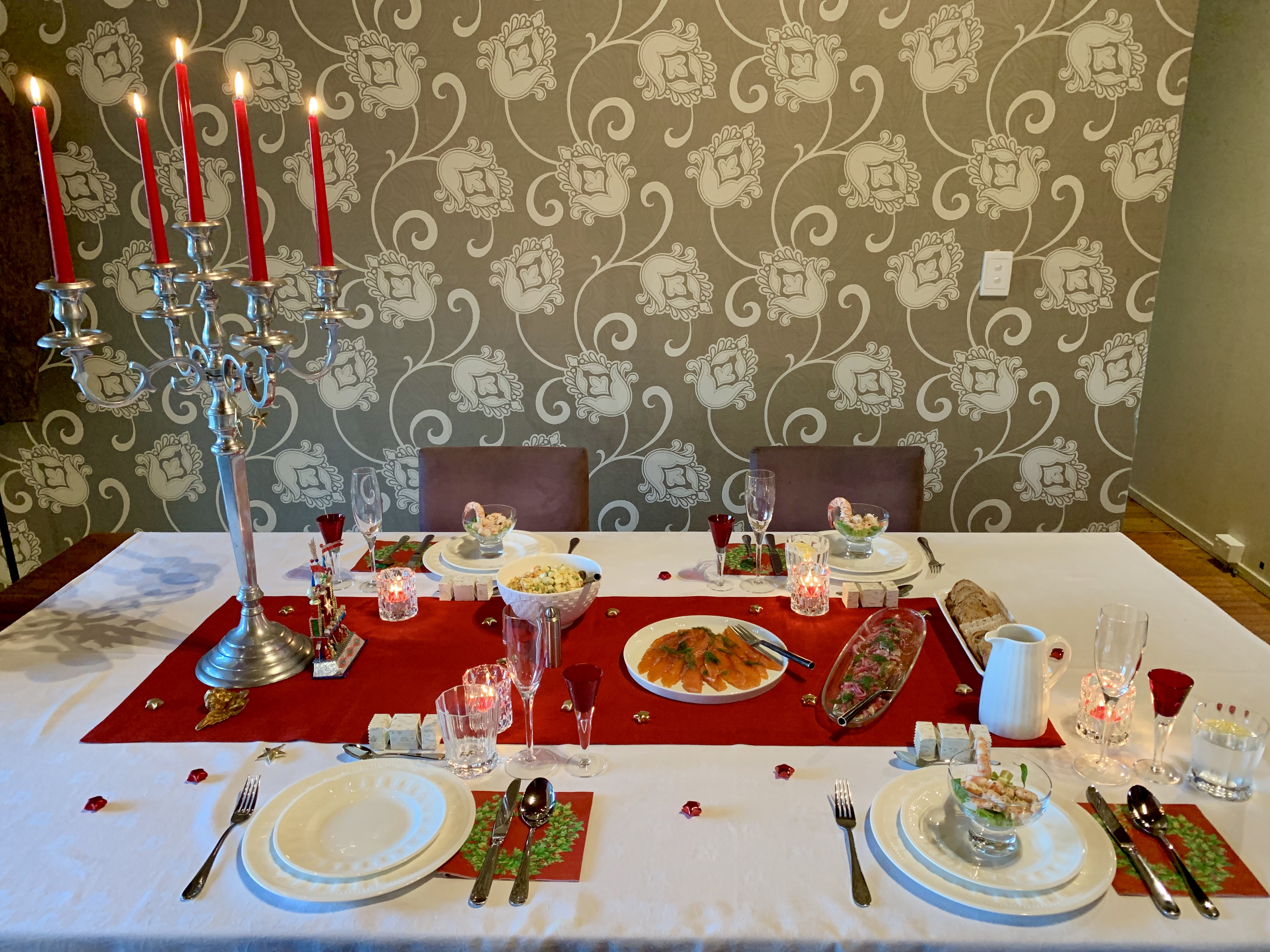 Christmas Eve dinner table with Christmas food